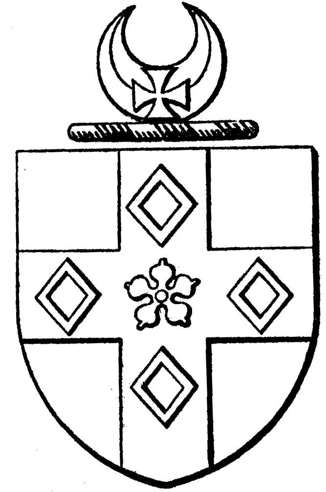 The arms were first procured by William Hayley, Dean of Chichester 1699-1715. The crest is Turkish silver crescent impressed with a bloody cross.